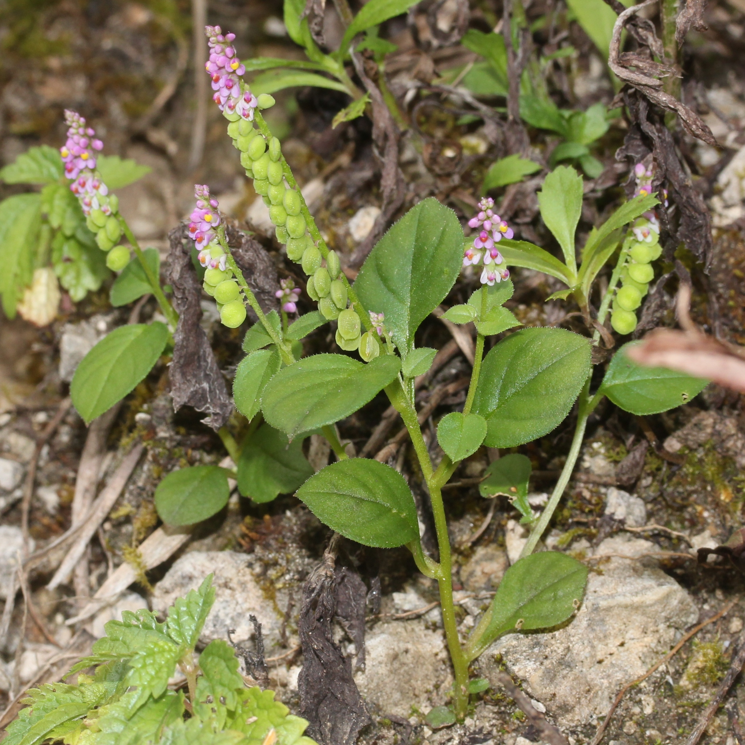 Polygala tatarinowii in Mount Ibuki, Ibigawa, Gifu prefecture, Japan.